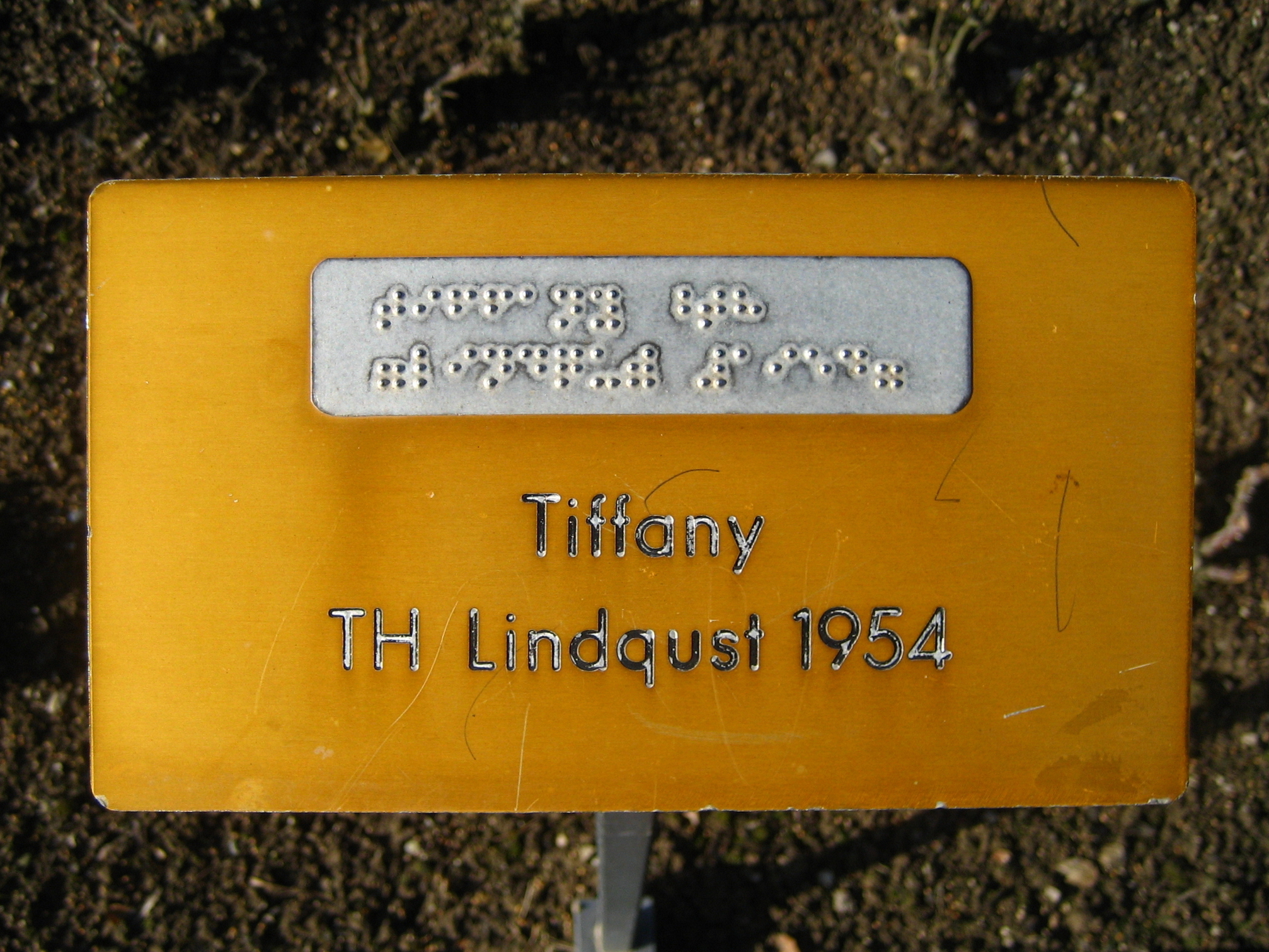 Rapperswil (SG) : Braille plagues in Duftrosengarten for blind people.